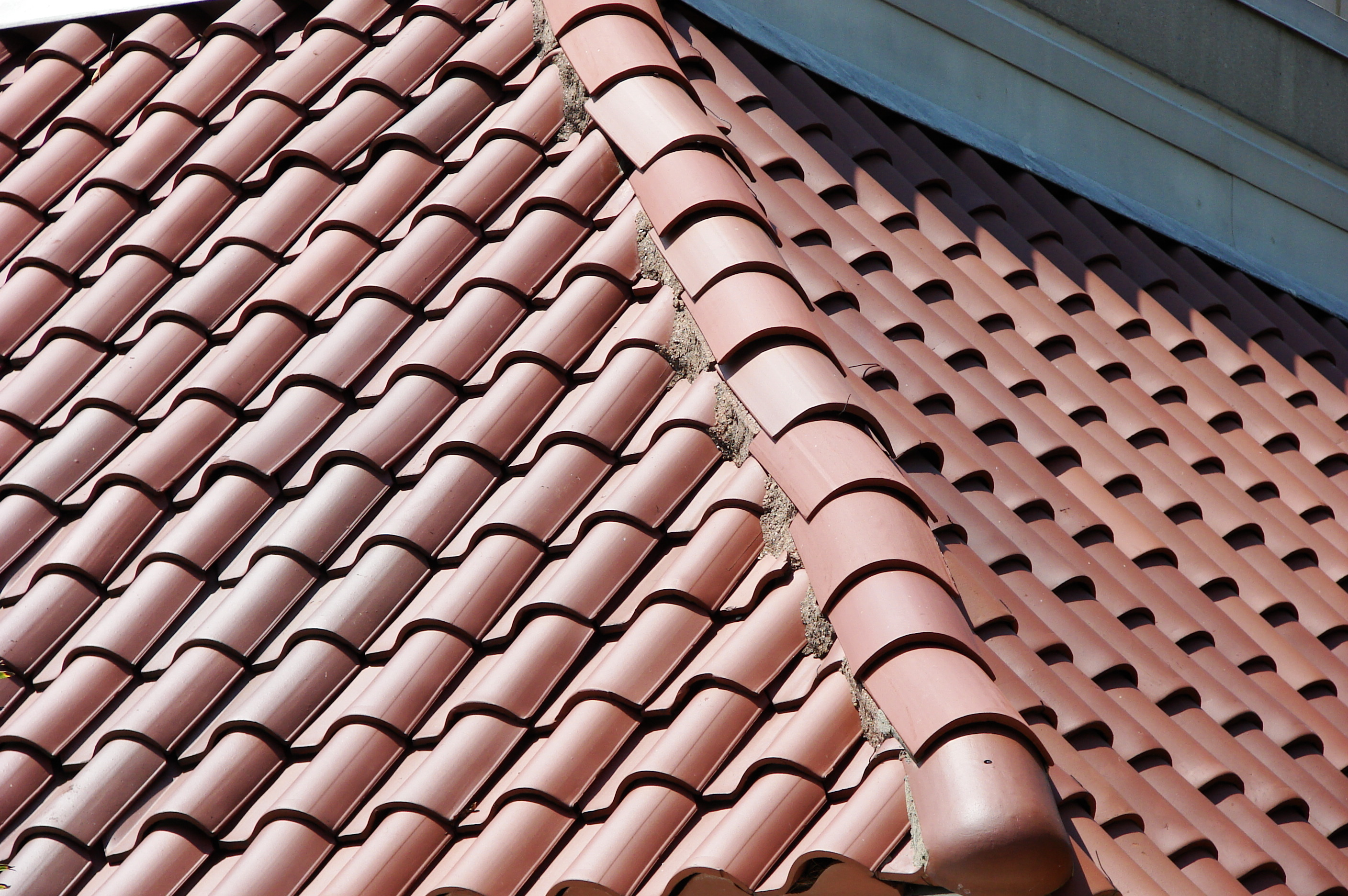 "Spanish style" red ceramic roof tiles in Texas.